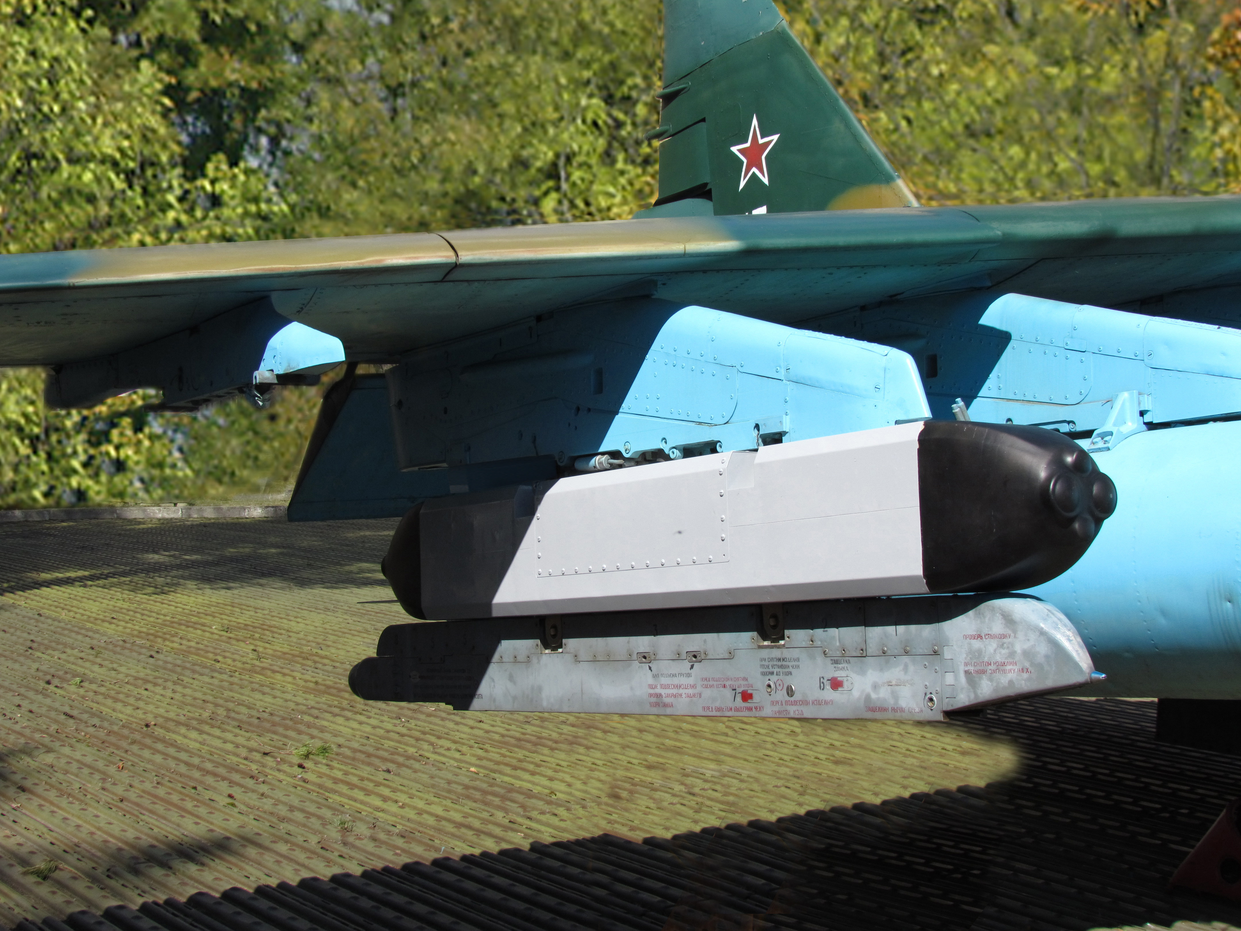 Talisman suspension attack